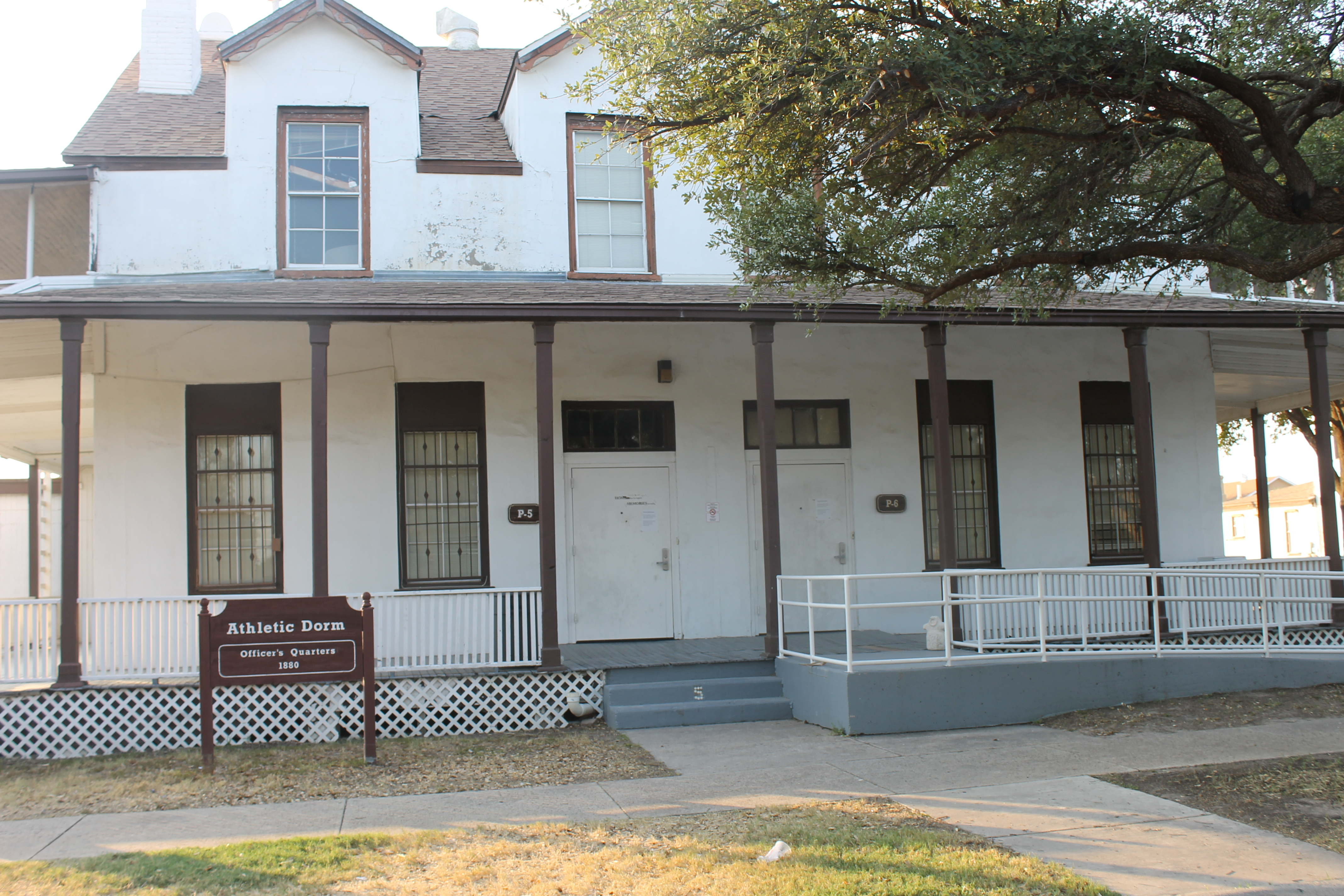 Athletic dorm, former officers' quarters, at Laredo (TX) Community College